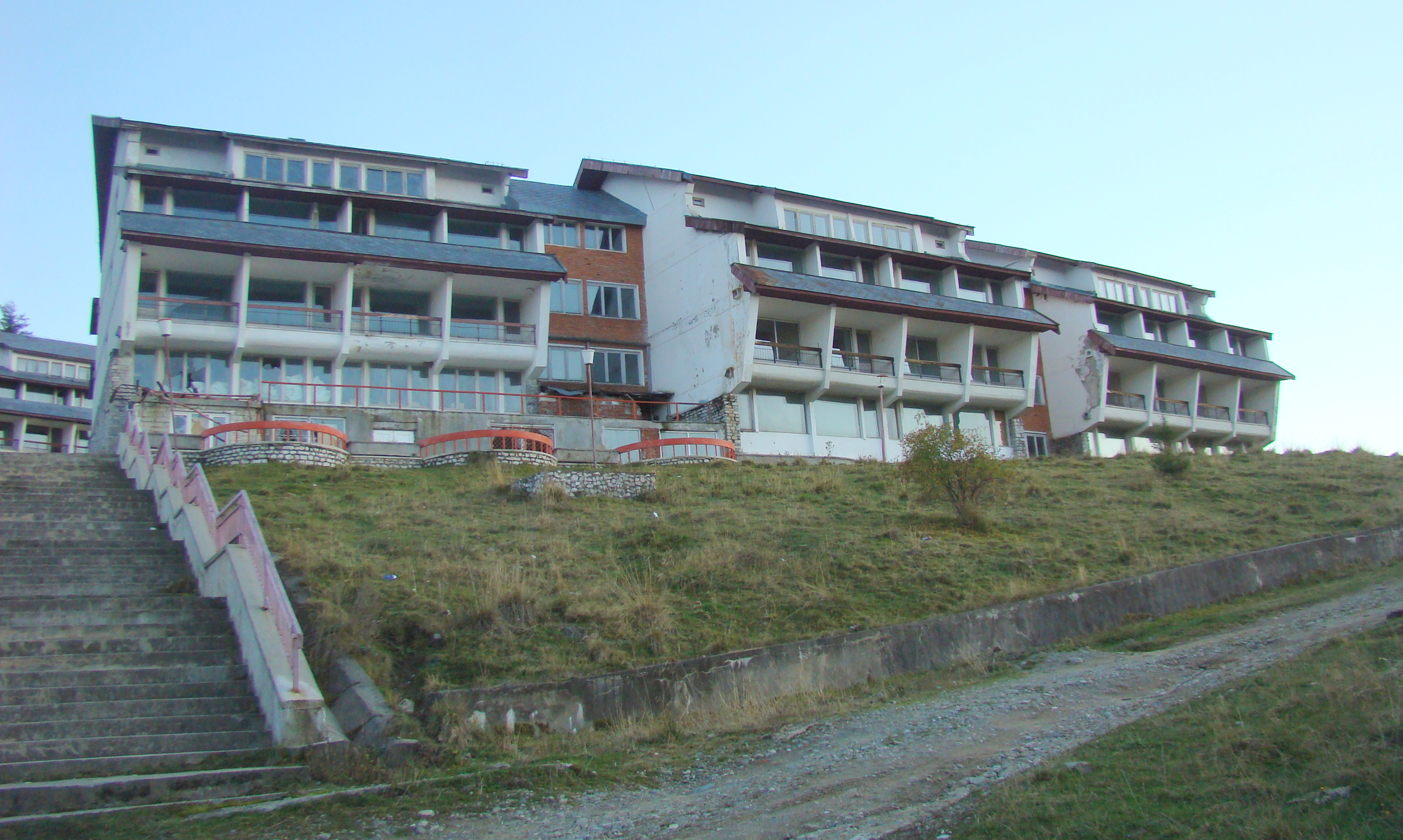 Vidra resort, Vâlcea county, Romania